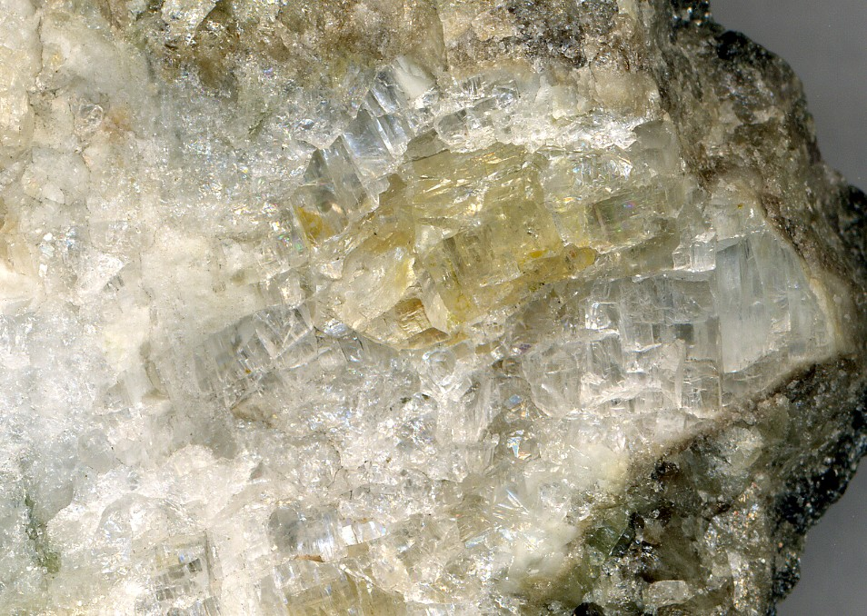 Bromellite, Phenakite, Chrysoberyl Field of view (FOV): ~ 4.3 cm x 3 cm Locality: Malyshevskaya pit, Malyshevskoe deposit (Mariinskoe), Izumrudnye Kopi area, Malyshevo, Ekaterinburg (Sverdlovsk), Sverdlovskaya Oblast', Middle Urals, Urals Region, Russia Original description: Agregate of large cm-size transparent, colourless and slightly yellowish crystals of bromellite cemented by white, granular, sugar-like phenakite masse and surrounded by crust of olive-green chrysoberyl. Collected in 2000. Pavel M. Kartashov collection (#2050) and photo